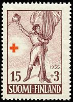 Swedeish colonel Joachim Zachris Duncker during the Finnish War was fought between the Kingdom of Sweden and the Russian Empire from February 1808 to September 1809.